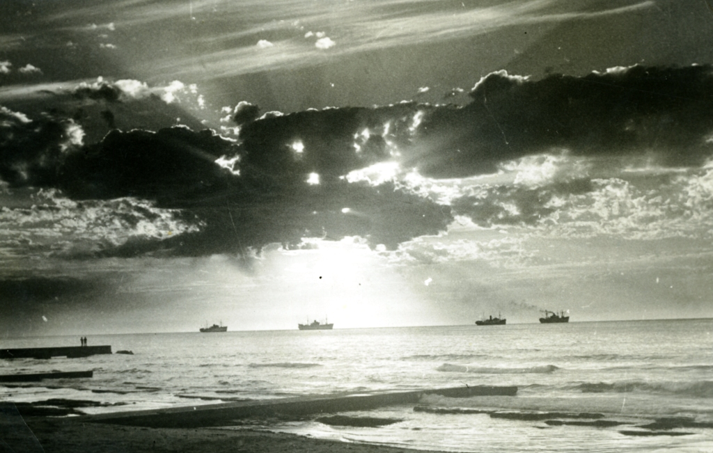 Sunset at the coast of Tel Aviv , Geography of Israel